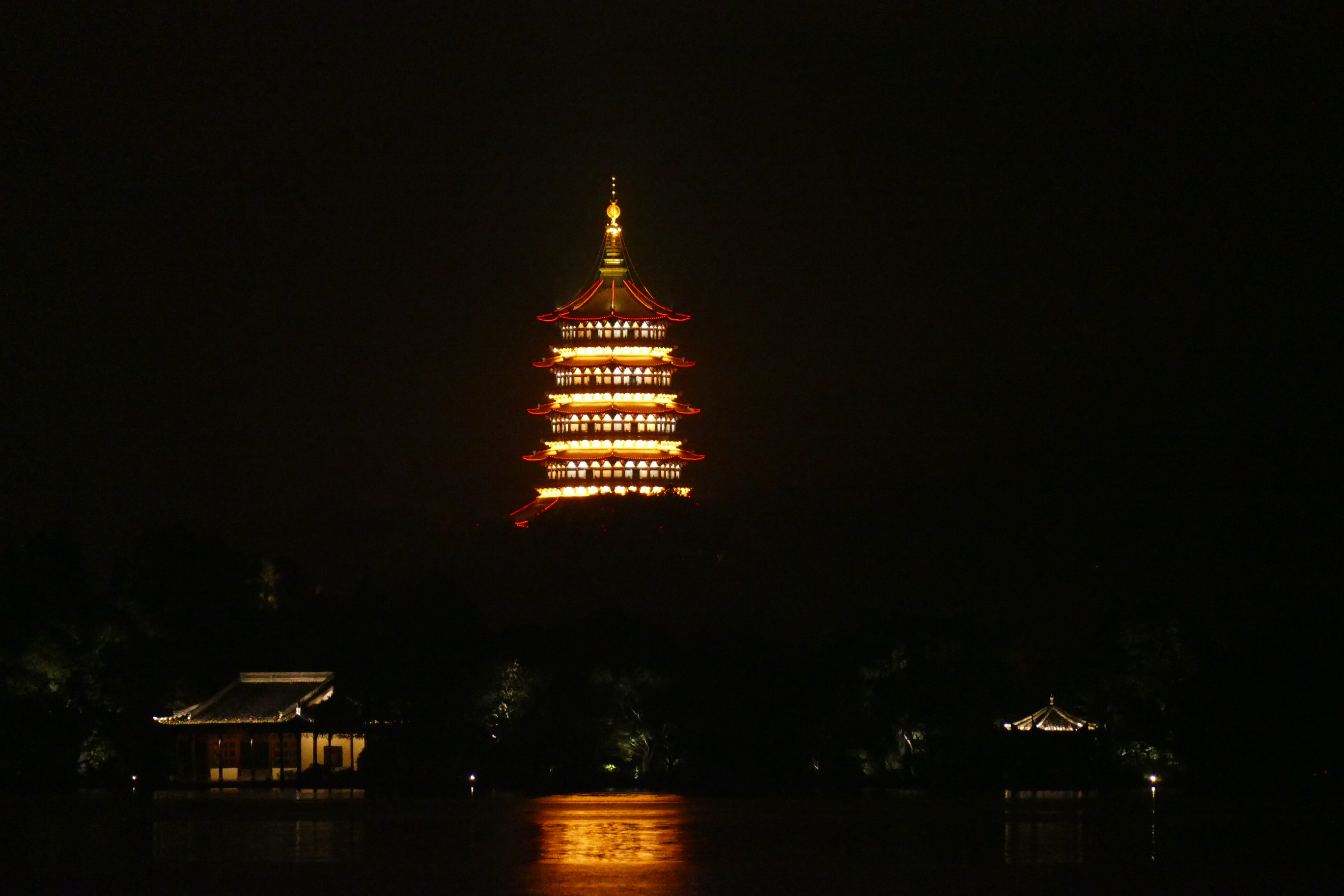 Leifeng Pagoda at night - Xihu (West Lake), Hangzhou, Zhejiang, China, 21.11.2014